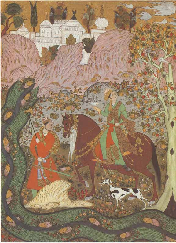 A Prince Hawking, made in Golconda, 1610-20. Johnson Album 67, no. 3, collection of the British Library. Bought with the Richard Johnson collection by the East India Company for its Library in 1807.